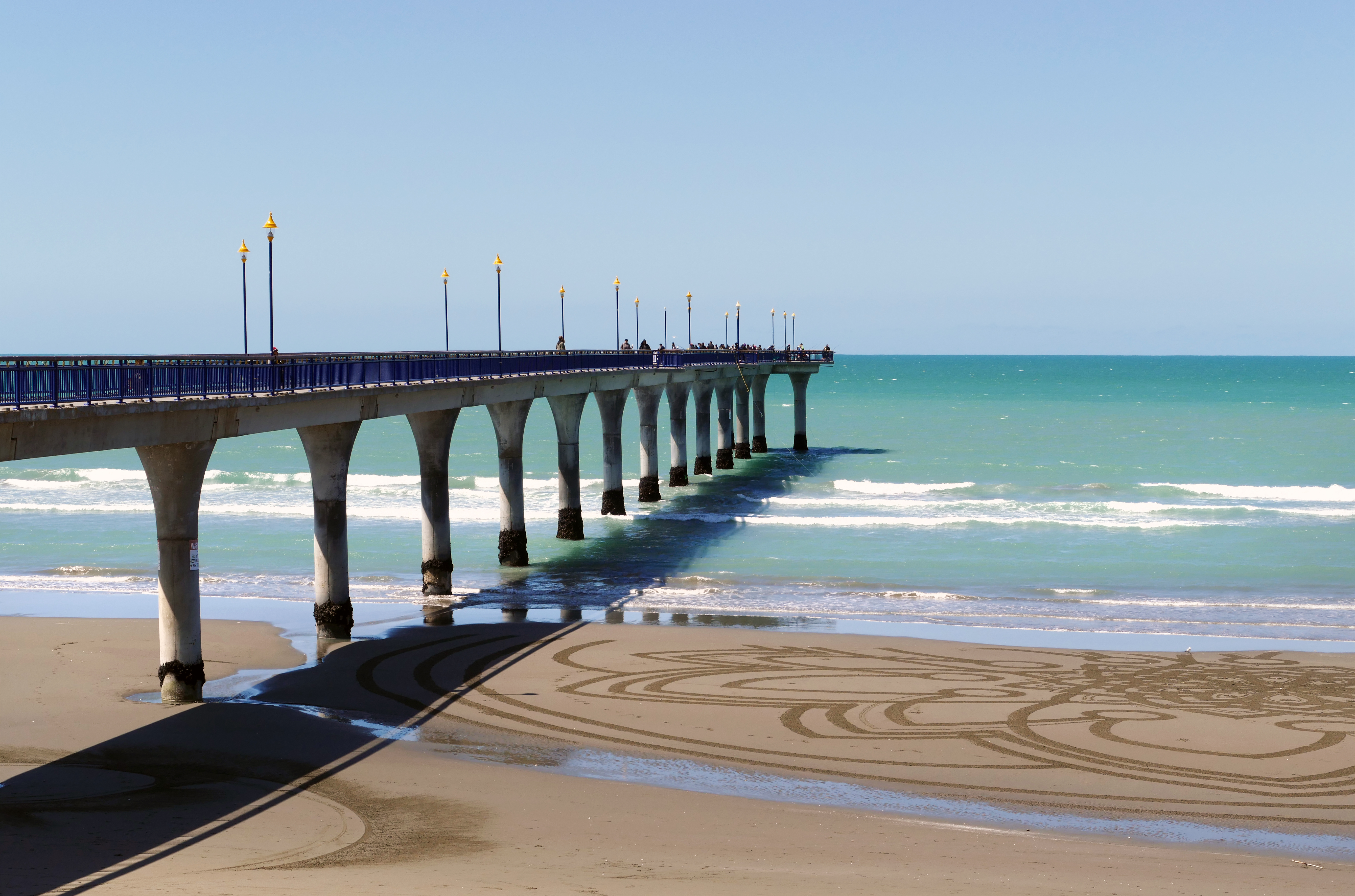 New Brighton Pier The New Brighton Pier is held as the icon of New Brighton and later the icon of Christchurch after the February 22nd earthquake which destroyed Christchurch's Cathedral. The pier is one of Christchurch's main tourist attractions. It was officially opened on 1 November 1997, and cost 4 million dollars to build (half of which was from private donations). Spanning 300 meters long, it is the longest pier in the Australasia.[citation needed] Currently the New Brighton Pier is the venue of a number of events, such as regular skate on the Pier events and the annual Guy Fawkes fireworks display held on November 5 every year.